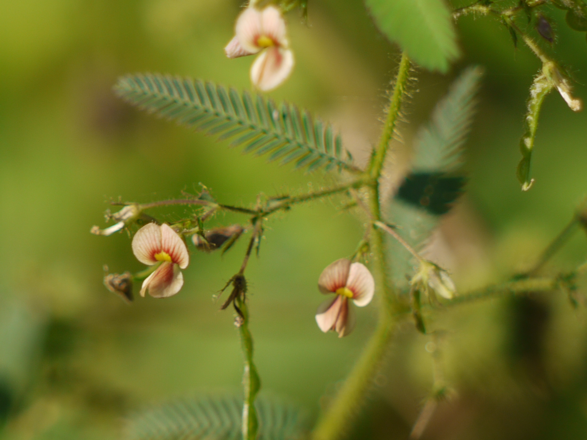 Fabaceae (pea, or legume family) » Aeschynomene americana es-kee-no-MEE-nee -- from Greek aeschyn (causing shame); refers to leaves closing up a-mer-ih-KAY-na or a-mer-ih-KAH-na -- meaning, of the Americas commonly known as: American joint-vetch, common aeschynomene, deer-vetch, shyleaf • Hindi: सोल घास sol ghas, सोली soli • Tamil: நெட்டி netti Origin:Central America and tropical South America References: Further Flowers of Sahyadri by Shrikant Ingalhalikar • PIER species info • Tropical Forages • EcoPort